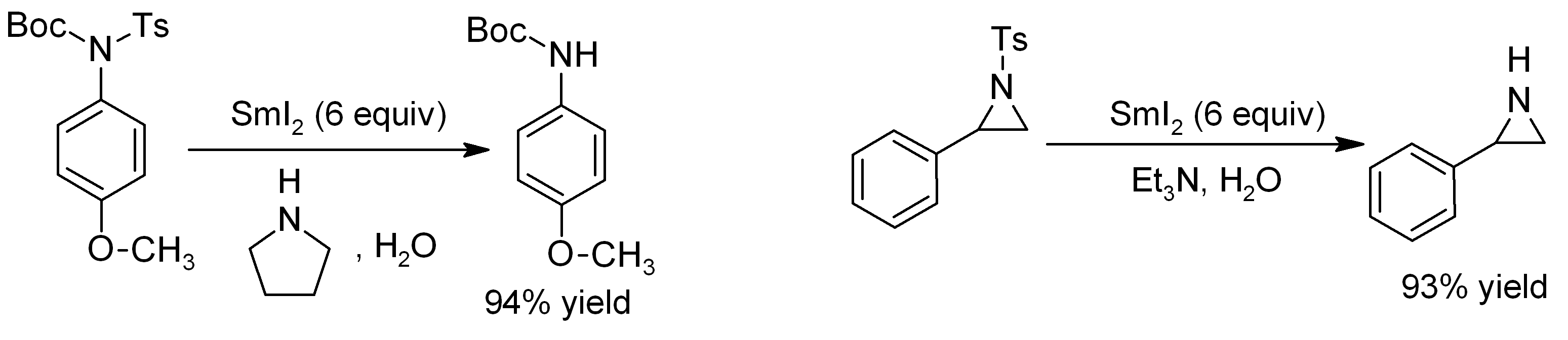 Two examples of use of samarium(II) iodide|samarium(II) iodide for removal of tosyl groups to produce amines. From Ankner T, Hilmersson G. "Instantaneous Deprotection of Tosylamides and Esters with SmI2/Amine/Water", Organic Letters, 2009, 11, 503–506.